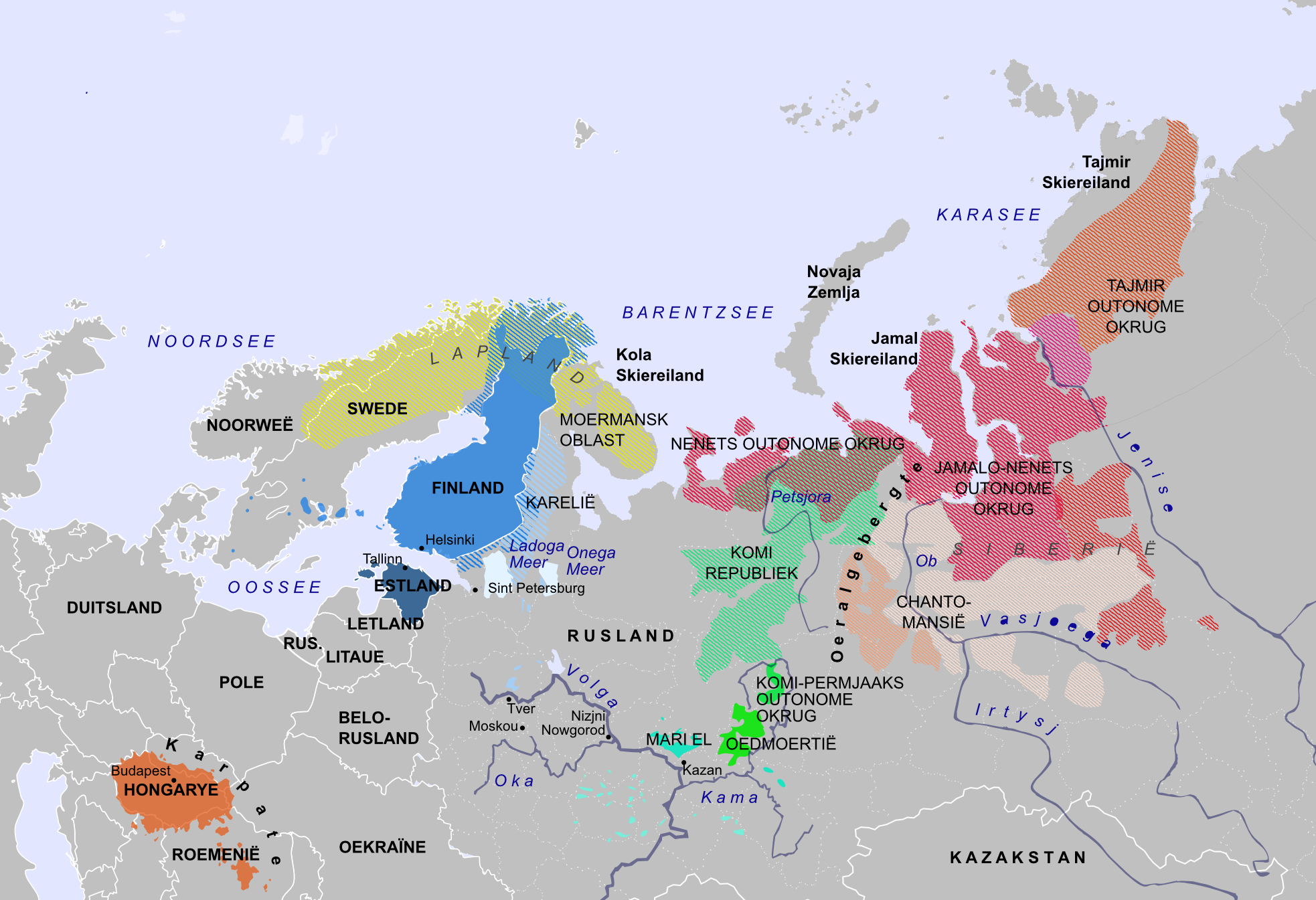 Bitmap version of linguistic map indicating the distribution of the Uralic languages